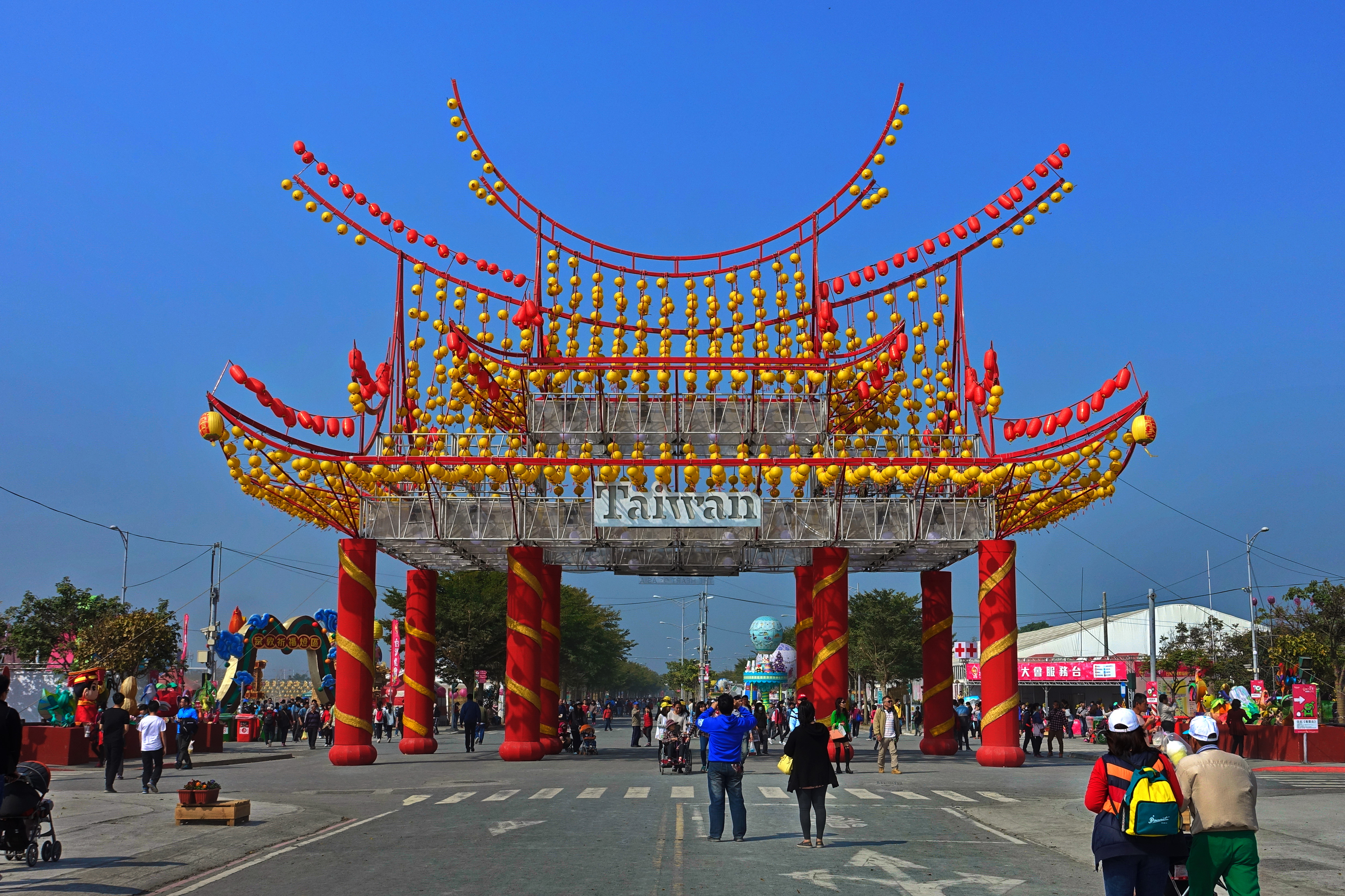 2017 Taiwan Lantern Festival, Yunlin County, Taiwan.